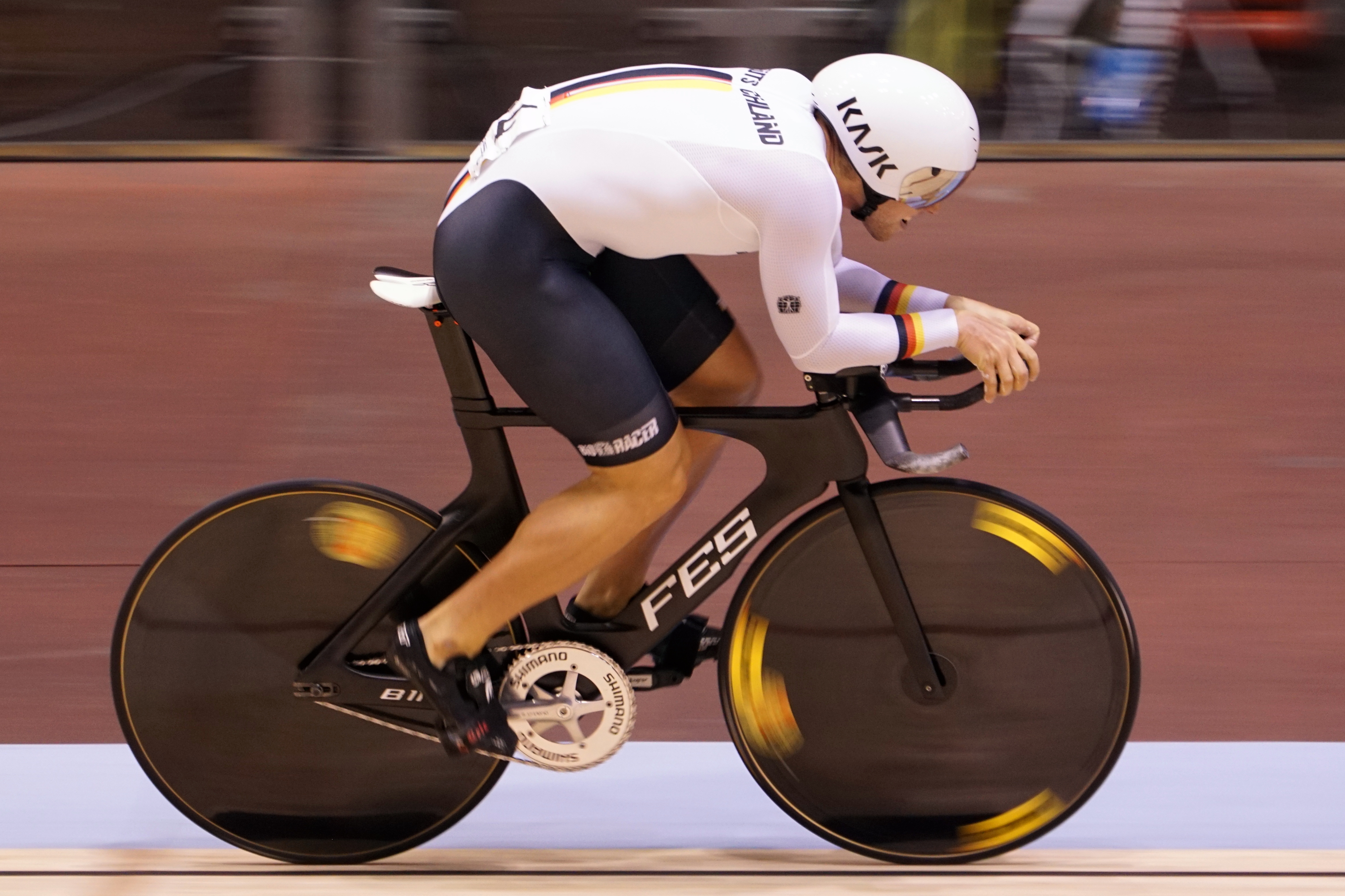 2017 UEC Track Elite European Championships - Men's 1km Time Trial Finals (4 laps)